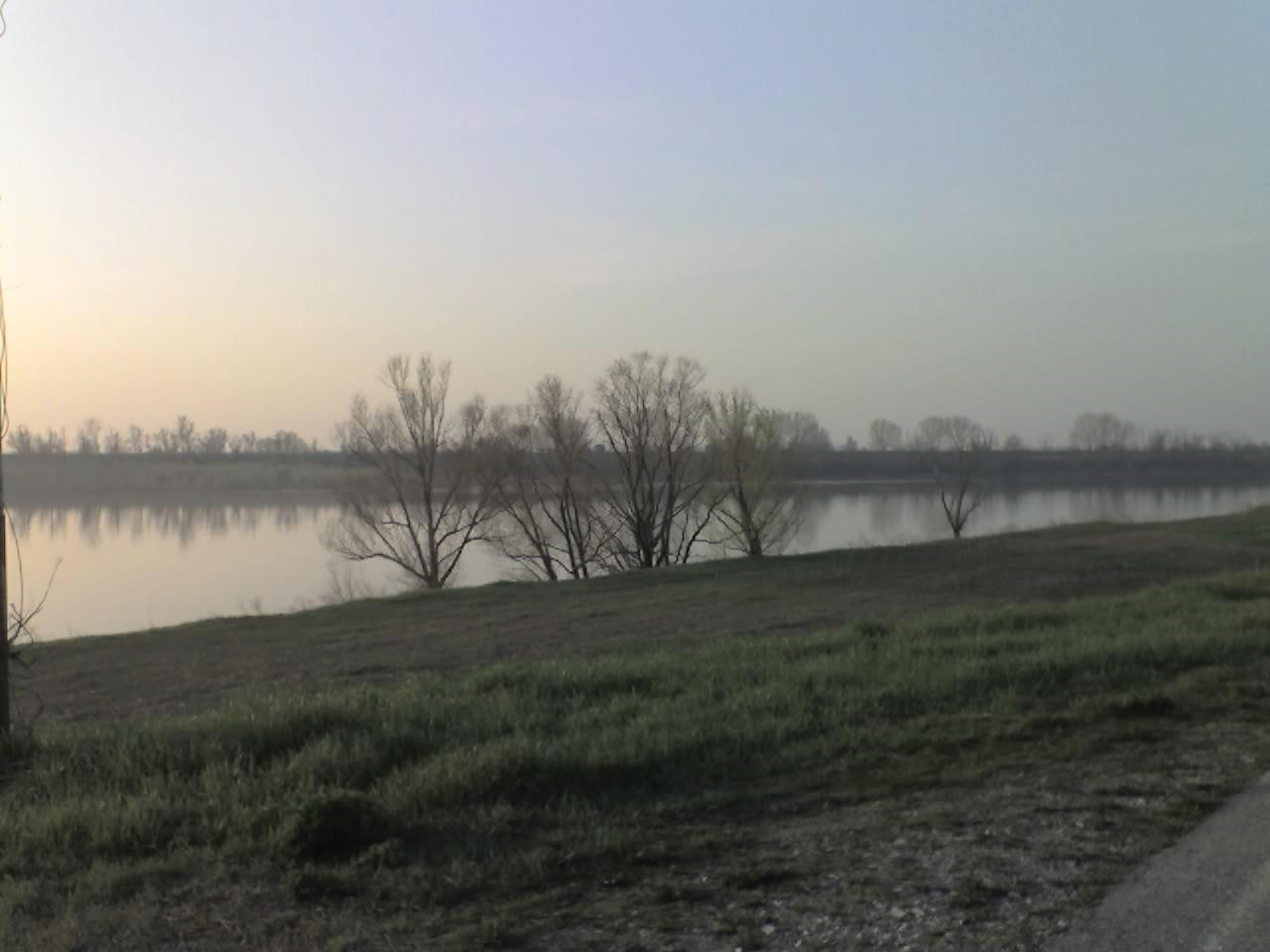 The Po River as seen from the bycicle touring course Destra Po in the province of Ferrara